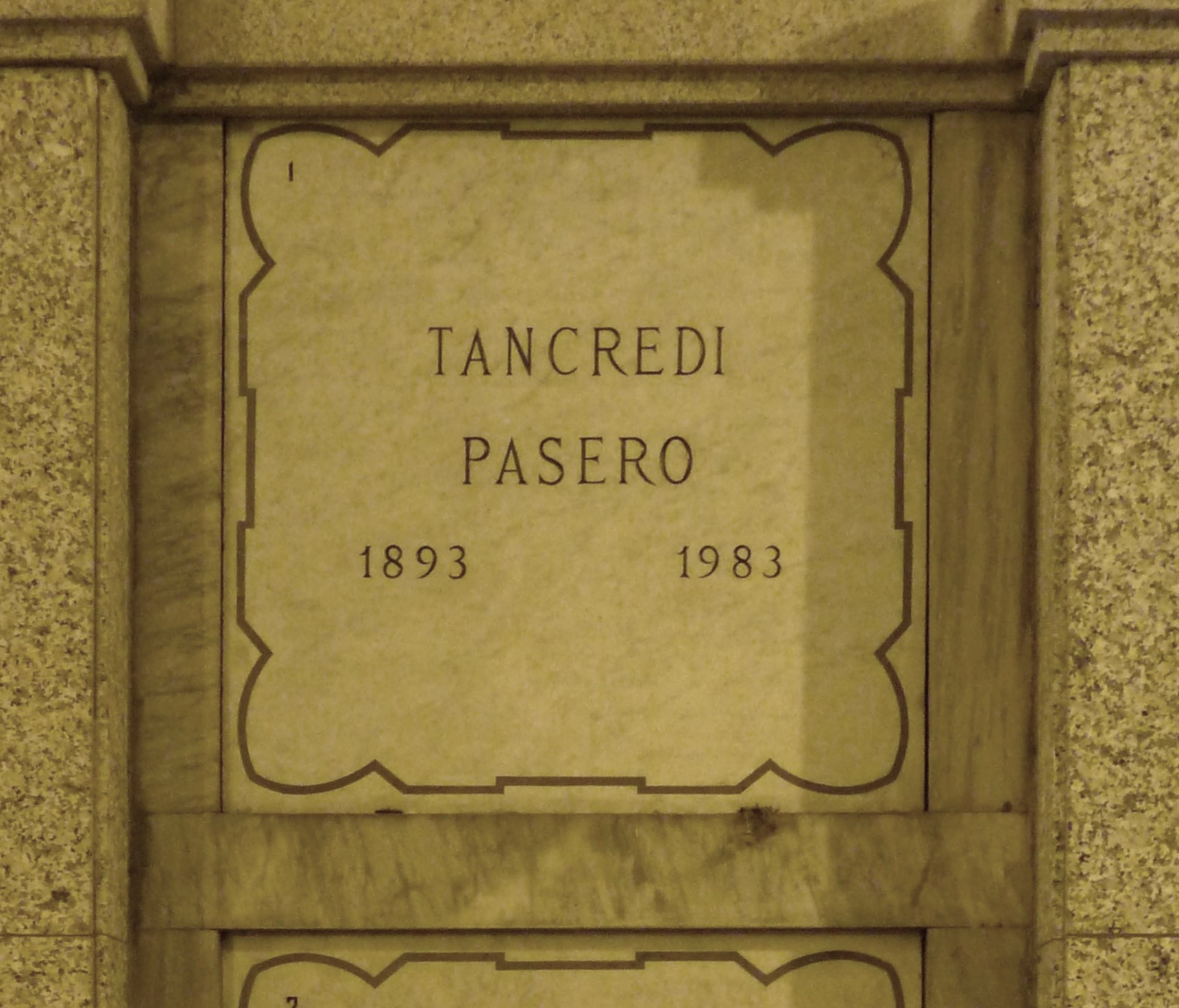 The grave of Italian bass Tancredi Pasero at the Monumental Cemetery of Milan, Italy.